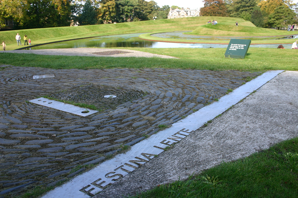 Land Art on a grand scale Landform by Charles Jencks in Edinburg/Scotland